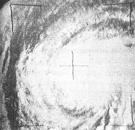 First hurricane ever detected from space, "Esther". This pioneer image was taken by TIROS 3 satellite, on 10th September 1961